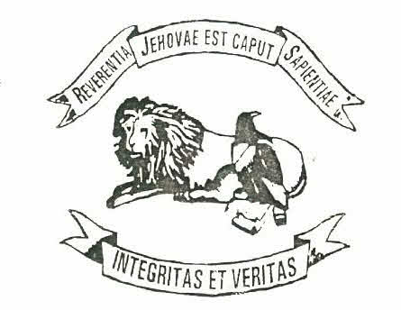 A logo of Baldwin Boys High School, located in Bengaluru, Karnataka.